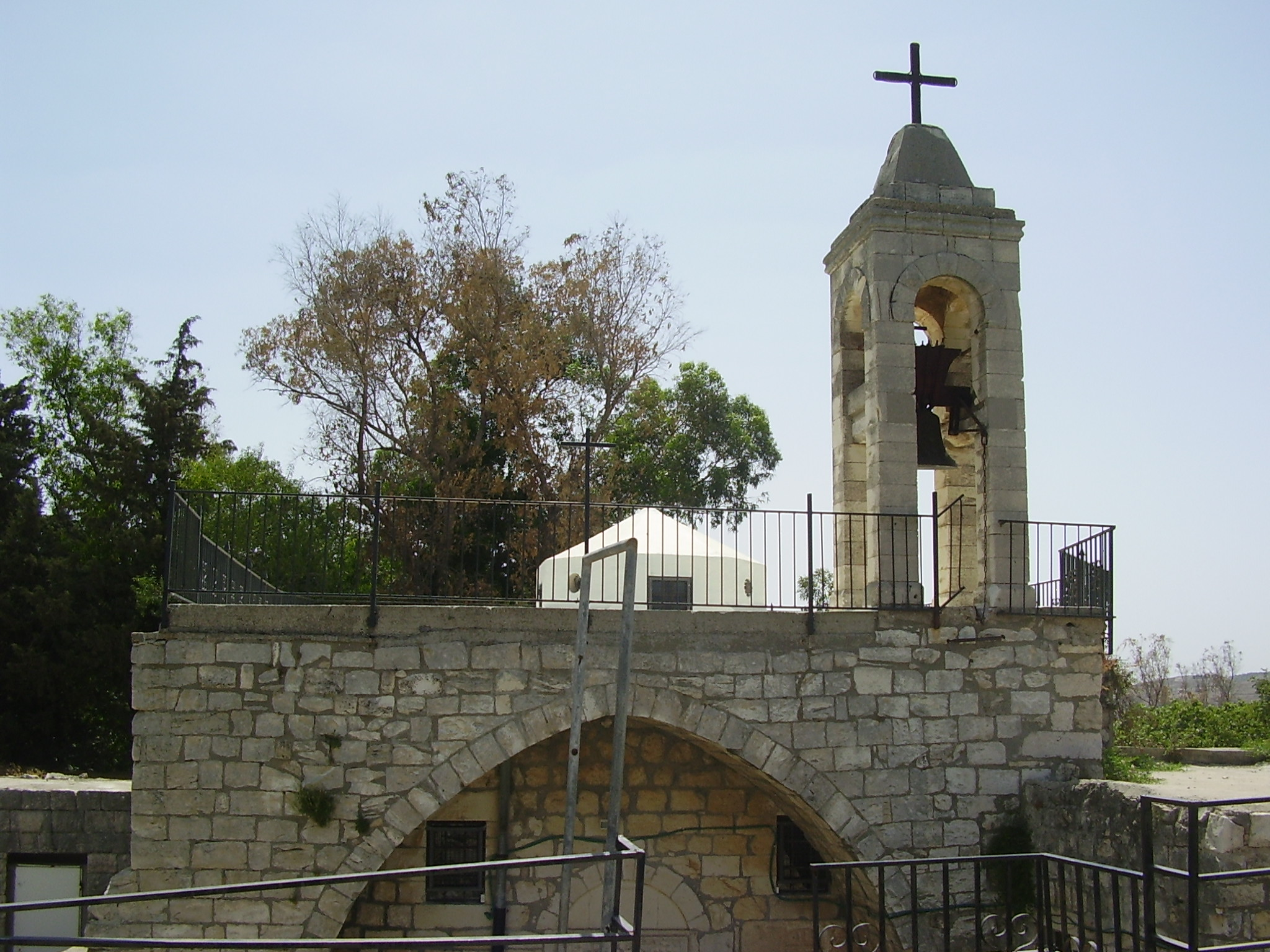 the maronite church in bar\'am